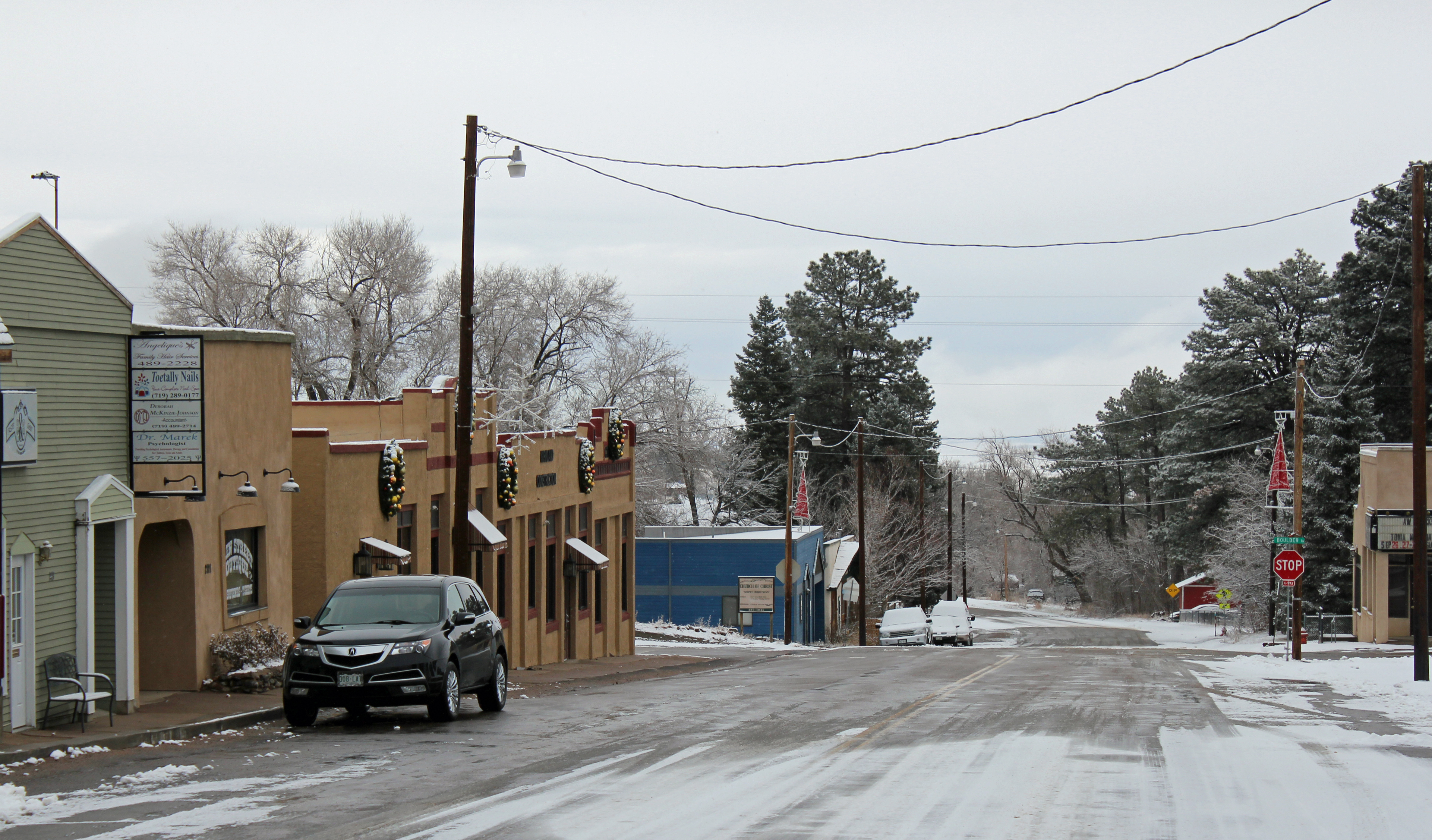 Rye, Colorado. The view is of Main Street, looking towards the east.